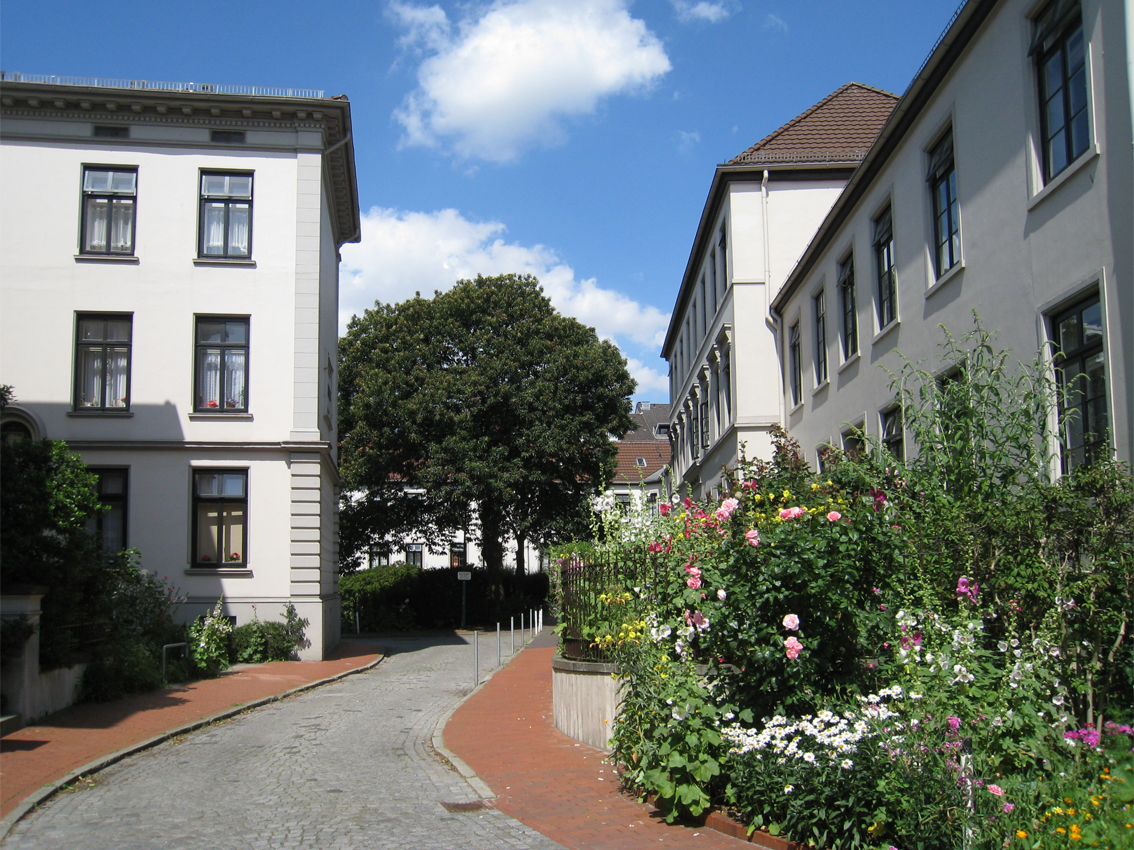 The St.-Remberti-Stift in Bremen, Germany.